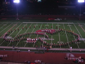 Western Kentucky University Big Red Marching Band